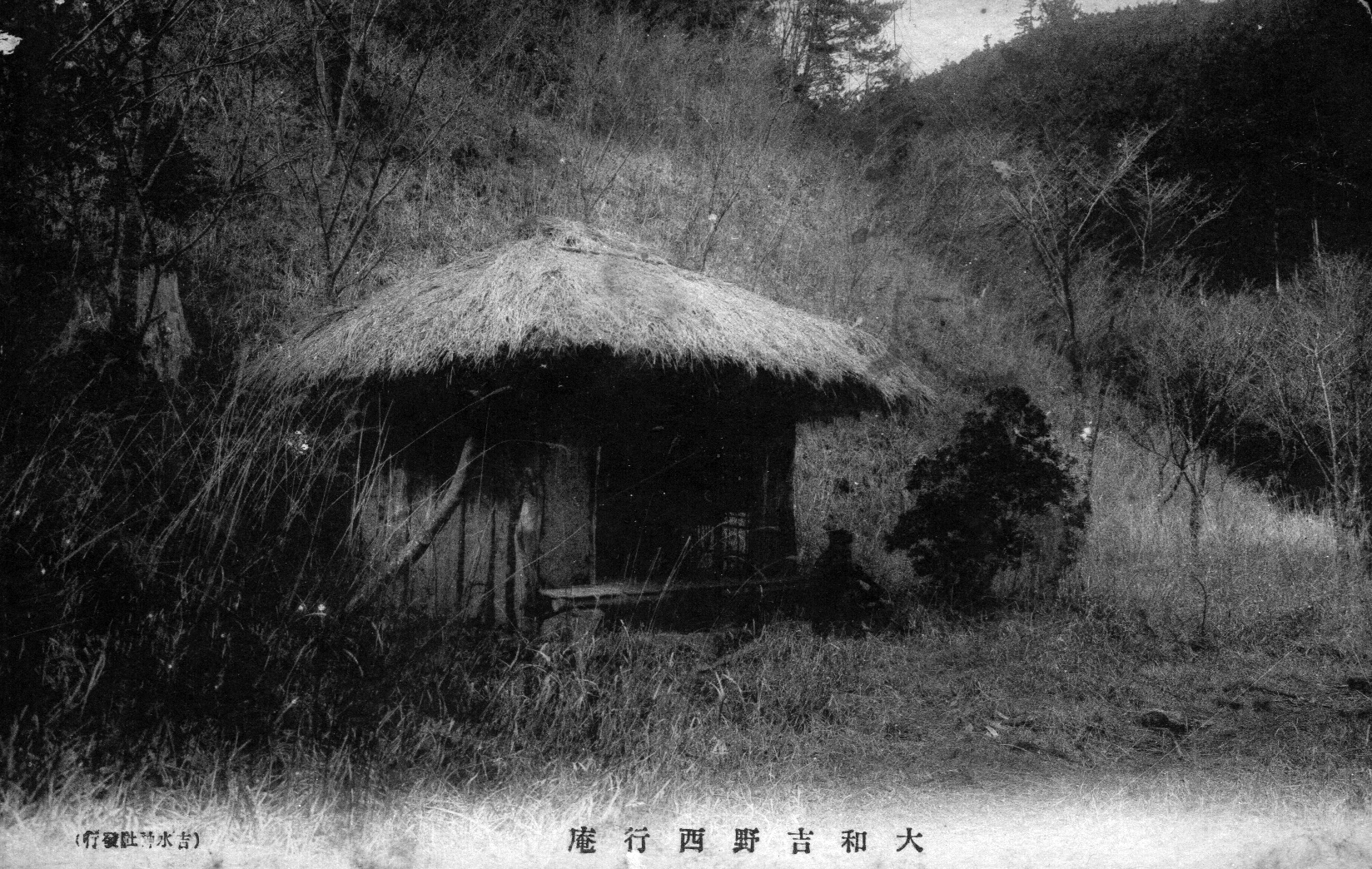 Hut of the poet and monk Saigyō Hōshi (西行法師 1118–1190) on Mount Yoshino (Nara Prefecture). Postcard, ca. 1910 (Collection W. Michel, Fukuoka)